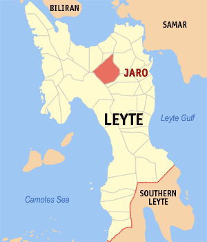 Map of Leyte showing the location of Jaro